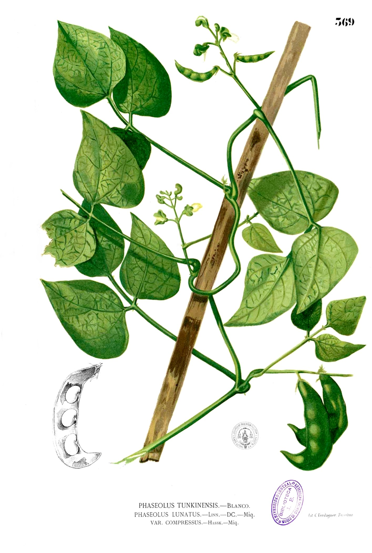 Plate from book